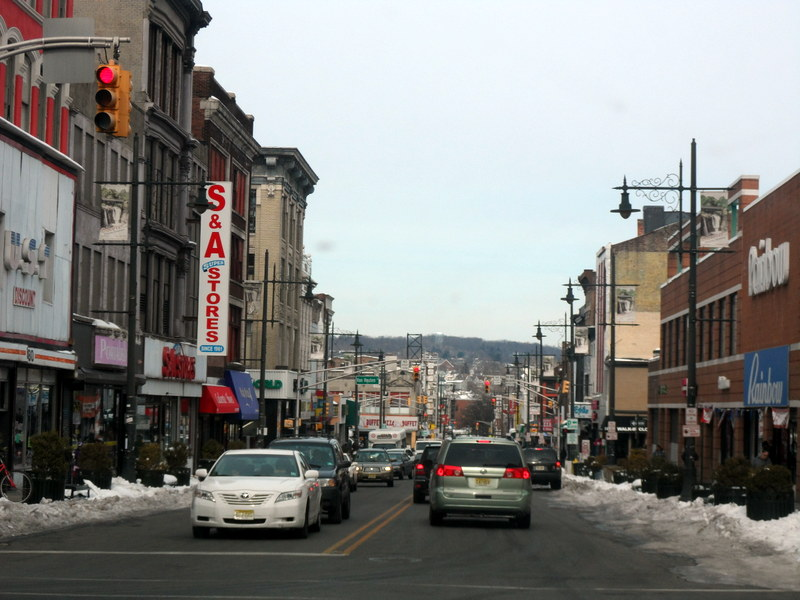 Paterson Downtown Commercial Historic District, Roughly bounded by Patterson, Ward and Gross Sts., and Hamilton Ave. Paterson